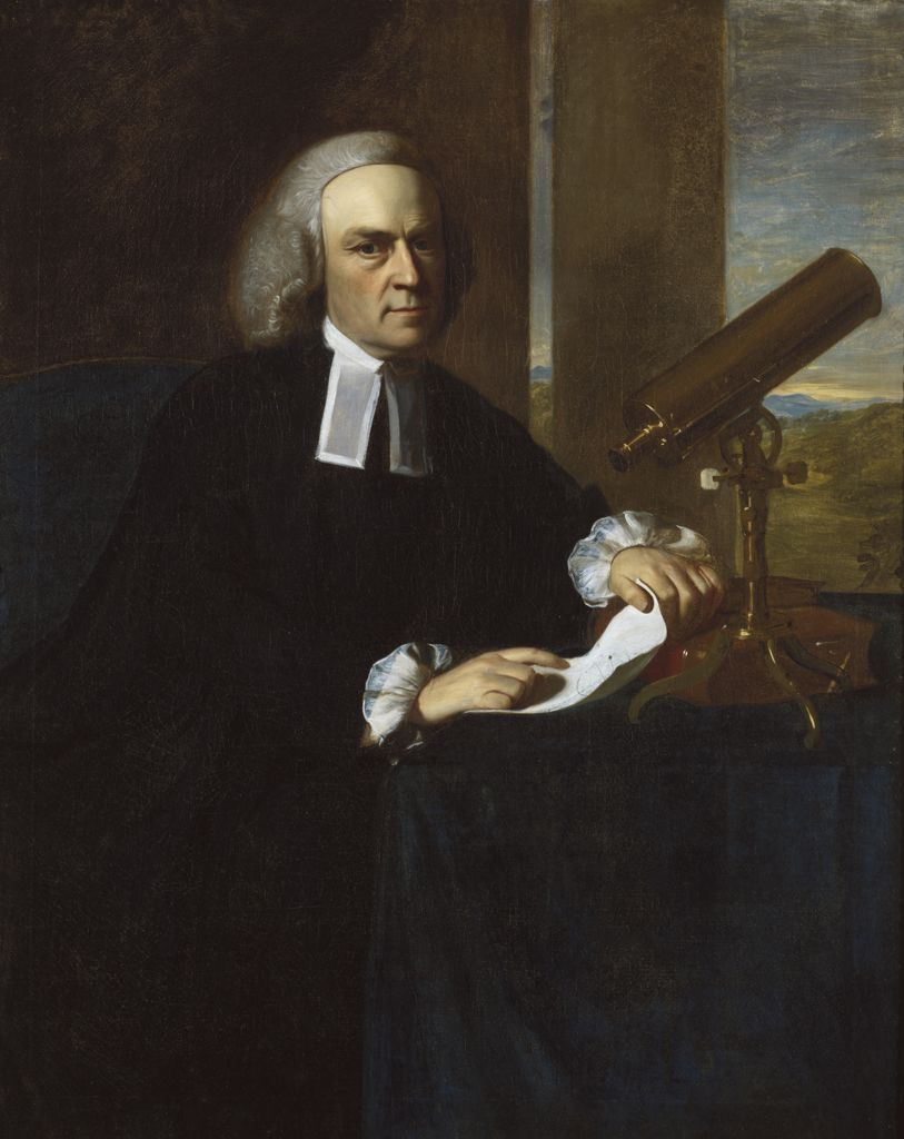 John Singleton Copley portrait of Harvard College president and astronomy professor John Winthrop.